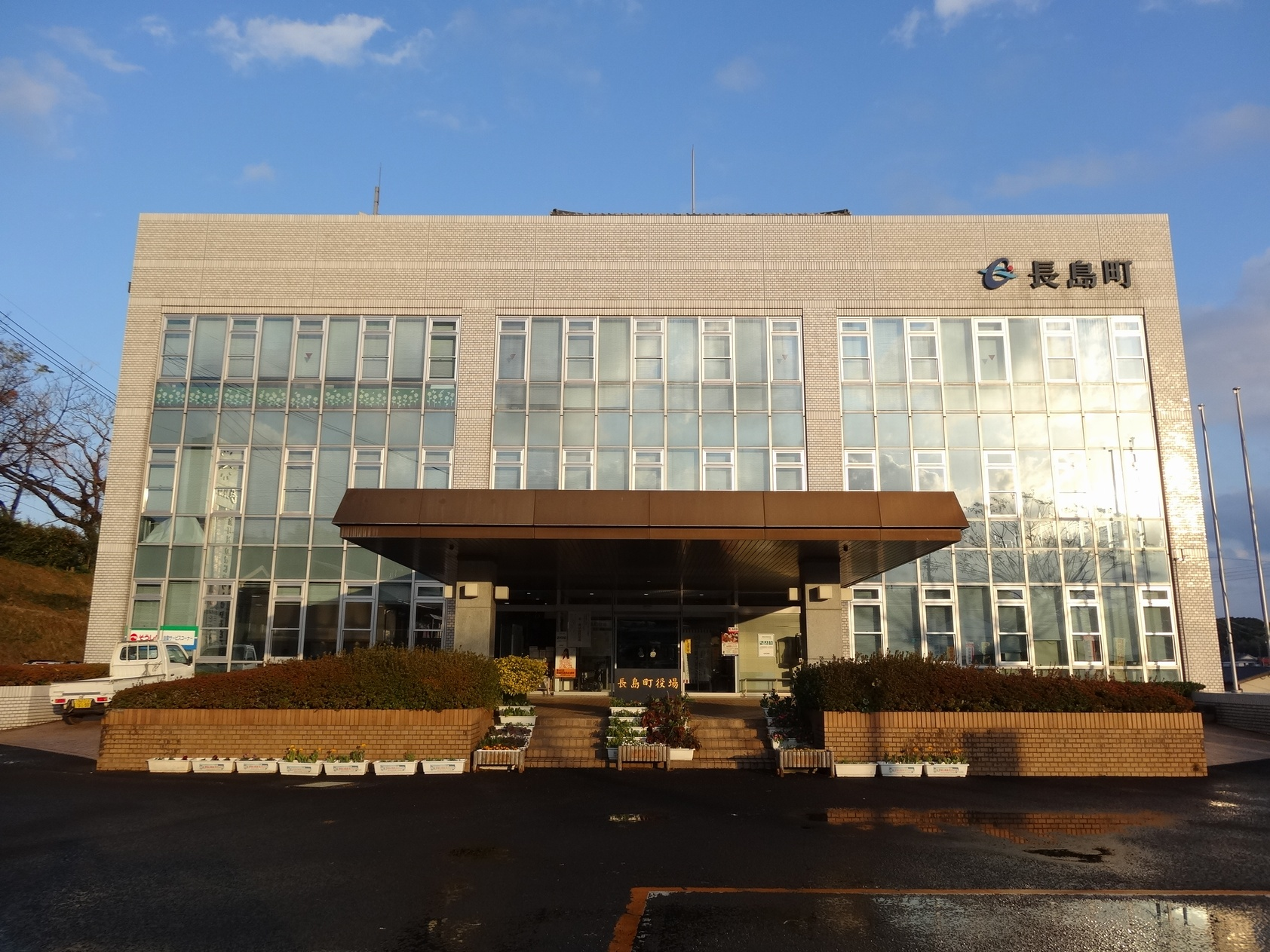 Nagashima Town Office Takanosu Branch, former Azuma Town Office (December, 2012 - Kagoshima Prefecture, Japan)